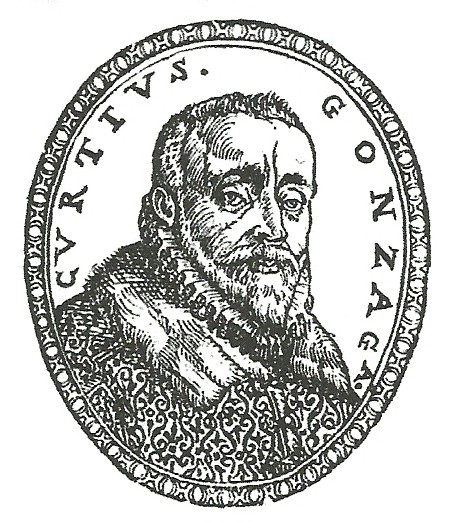 Portraits of Curzio Gonzaga (1530-1599).